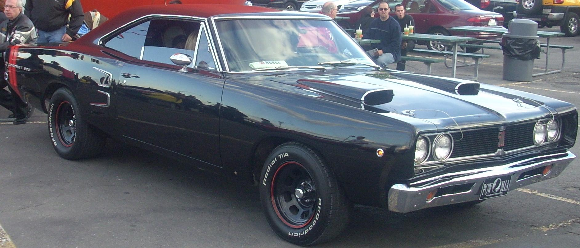 Dodge Coronet 500 photographed in Montreal, Quebec, Canada at Gibeau Orange Julep.